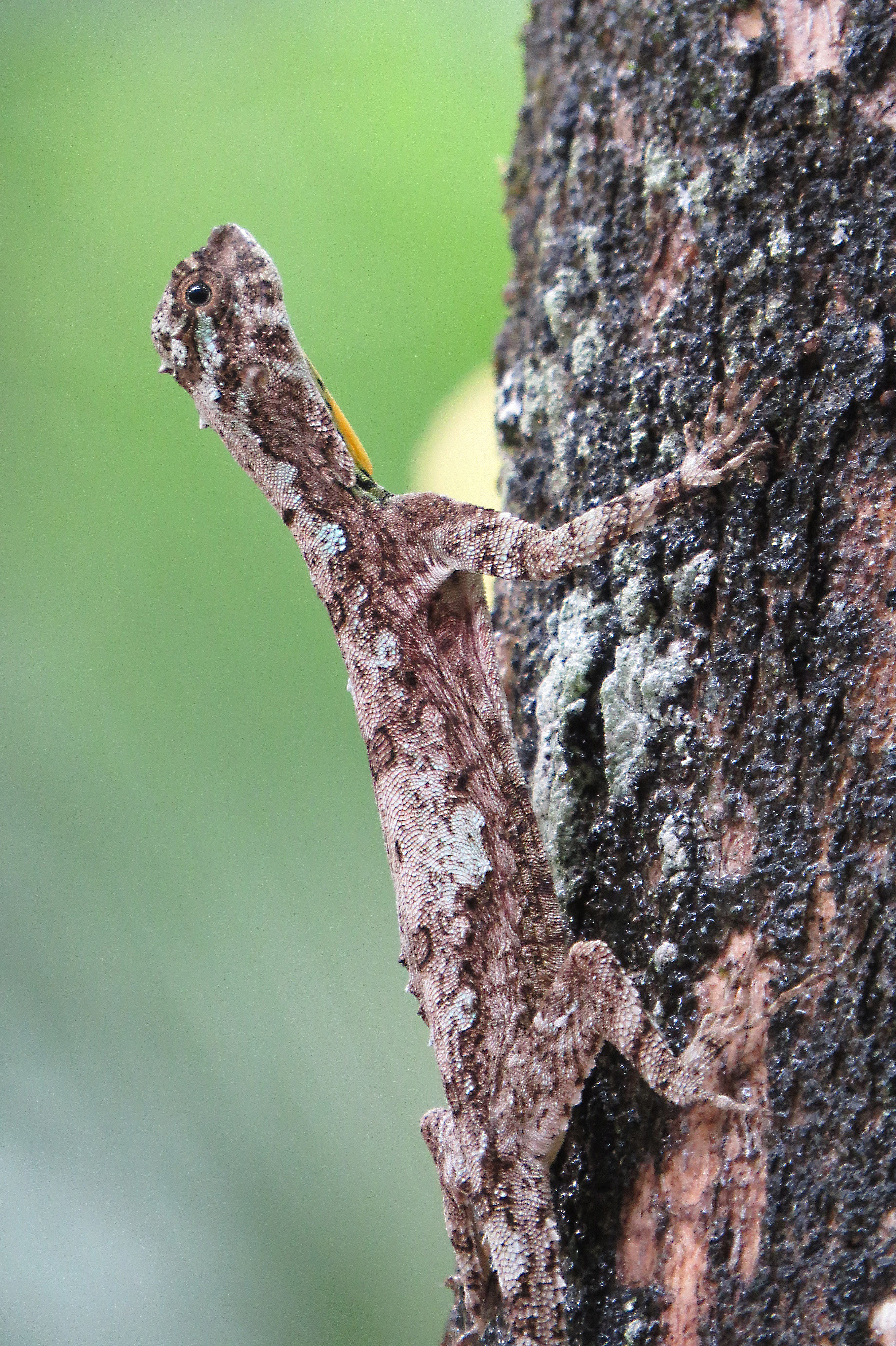 Indian gliding lizard Draco dussumieri at Tropical Botanic Garden and Research Institute